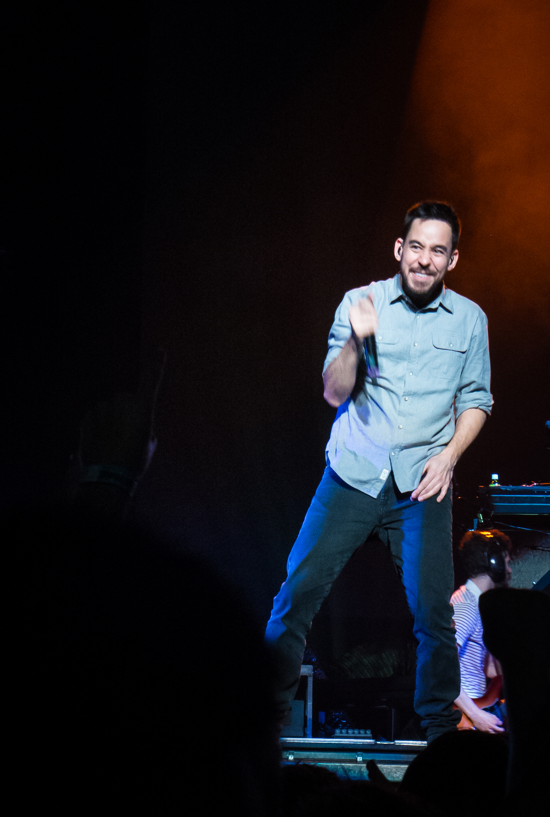 Mike Shinoda performing with Linkin Park at Soundwave 2013 - Rod Laver Arena, Melbourne.